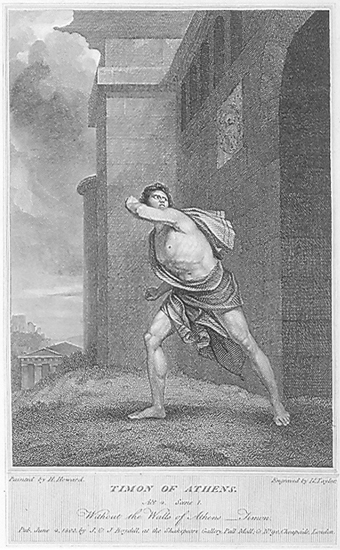 Timon of Athens: Act IV, Scene 1: Timon renounces society